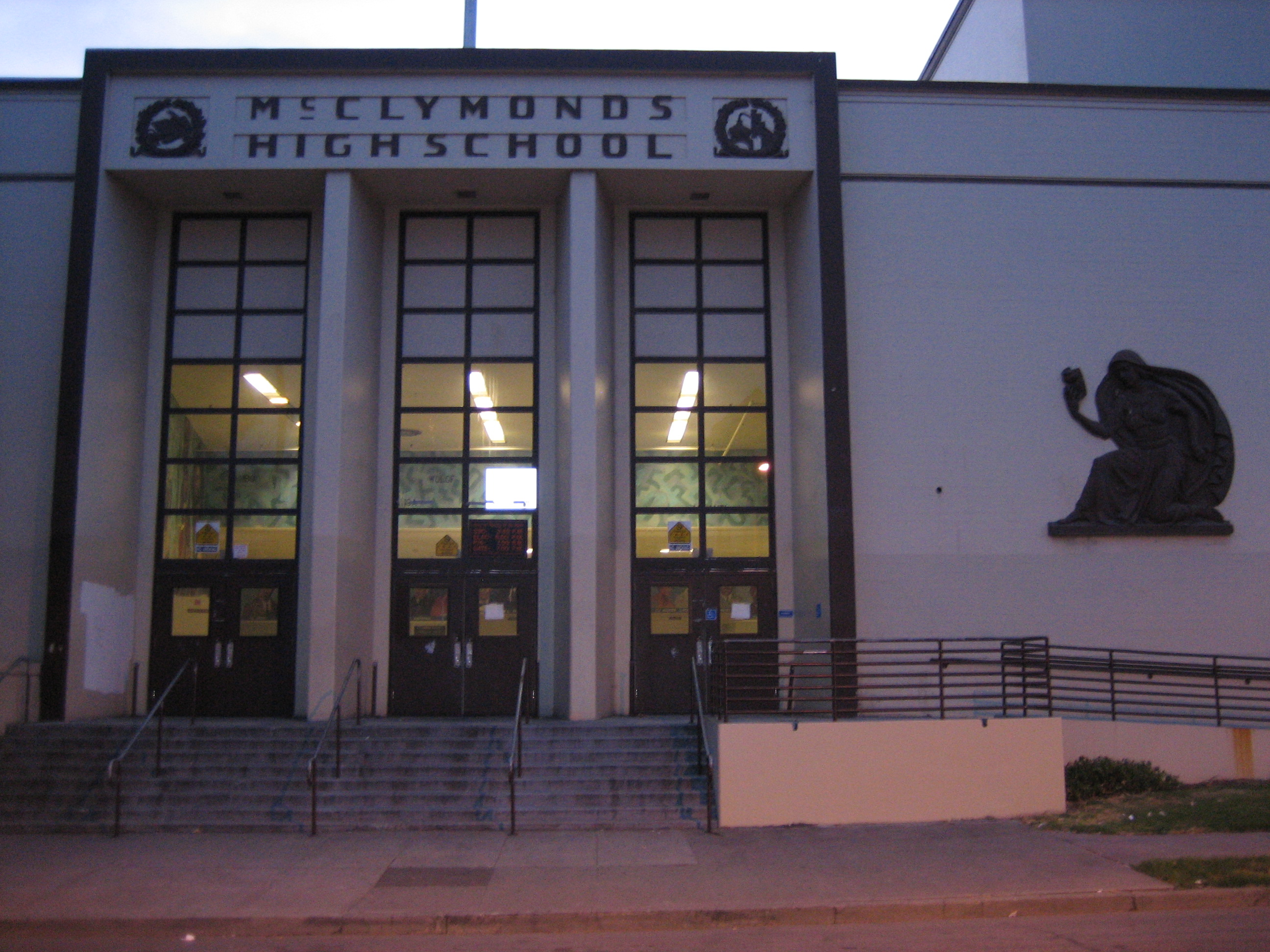 Uploading image for McClymonds Educational Complex